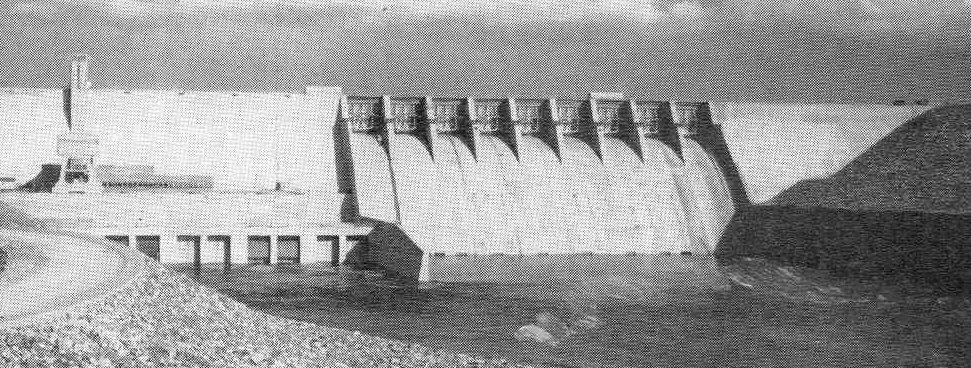 Cherokee Dam in the early 1940s. The dam, located on the Holston River in East Tennessee, was completed in 1941 by the Tennessee Valley Authority (which still operates it). Note: This was cropped from a larger photograph to aide thumbnail display.